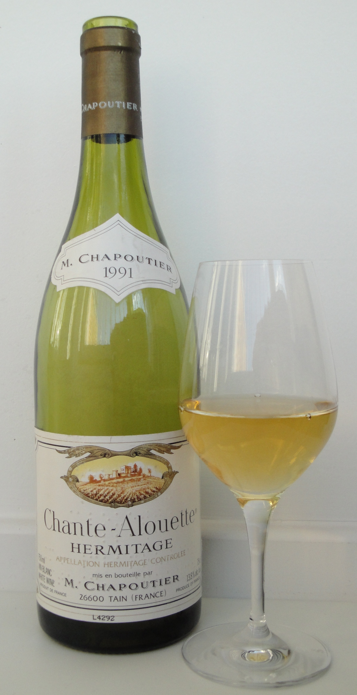 Chante-Alouette 1991, a white Hermitage from M. Chapoutier. Hermitage is a wine from northern Rhône, France.